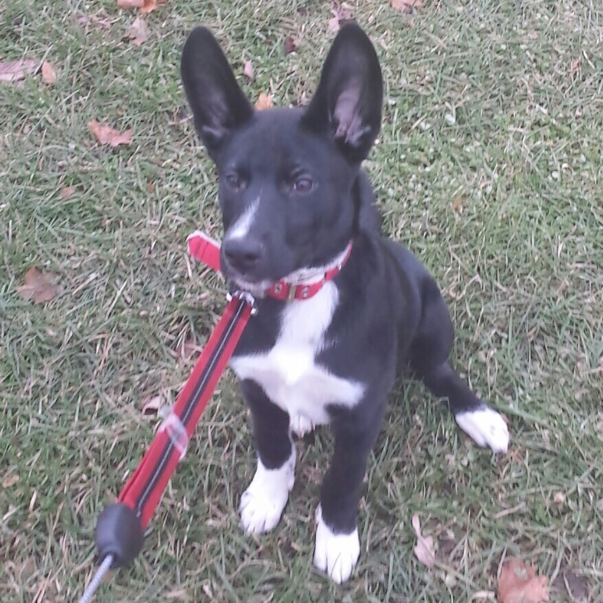 A Sheprador at 3.5 months old. A cross between a German Shepherd and Labrador Retriever.